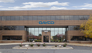 Dayco Worldwide Headquarters